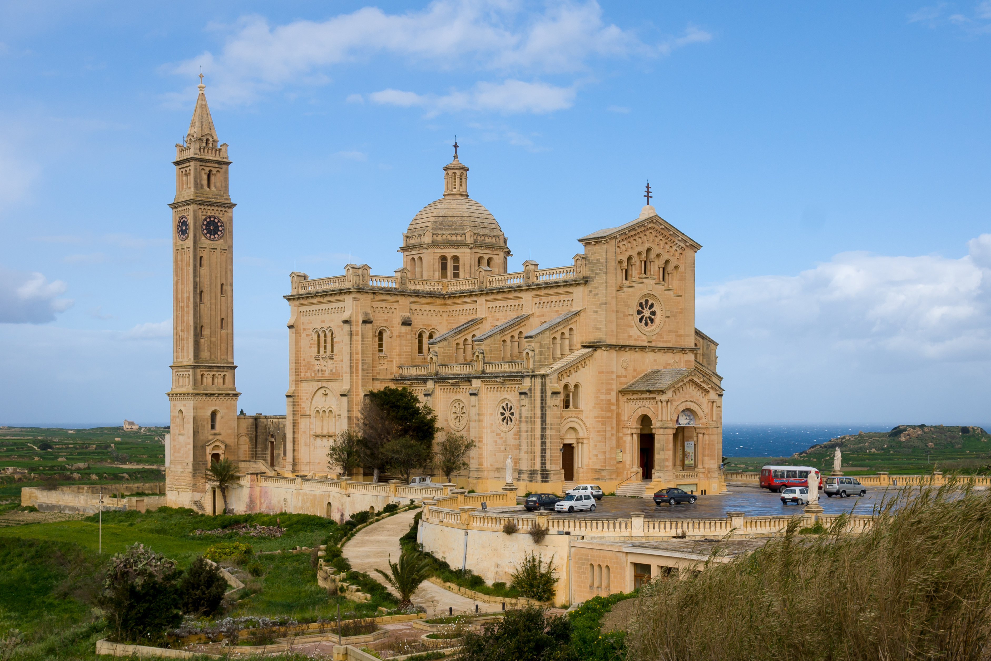 Gozo, Malta: Basilica Ta' Pinu